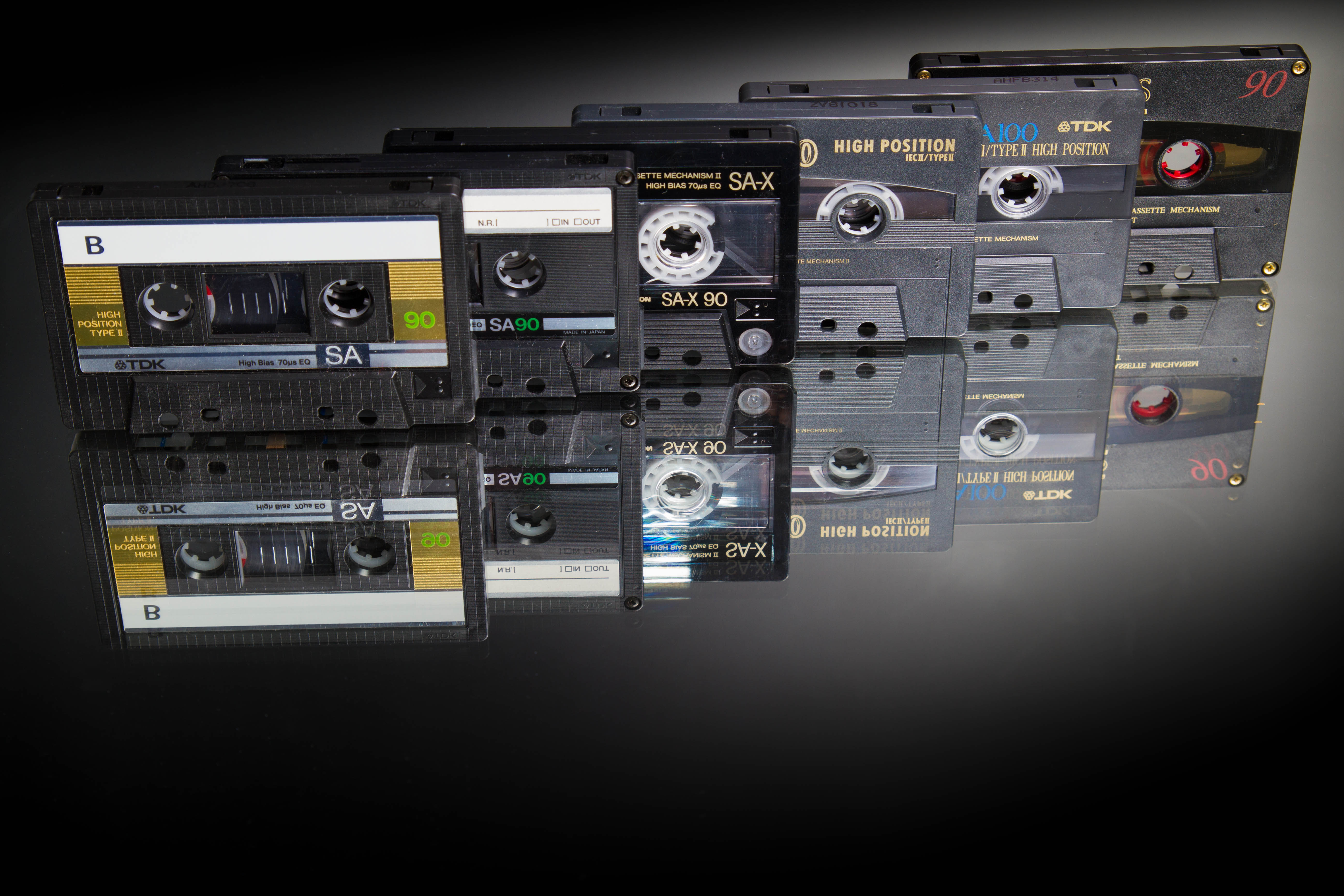 Various generation of TDK SA cassette shells (with the SA-X in the middle, and SA-XS in the right), starting with the 1985-1987 version